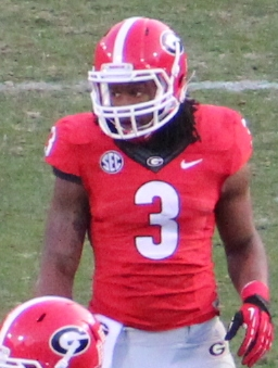 Todd Gurley in 2013